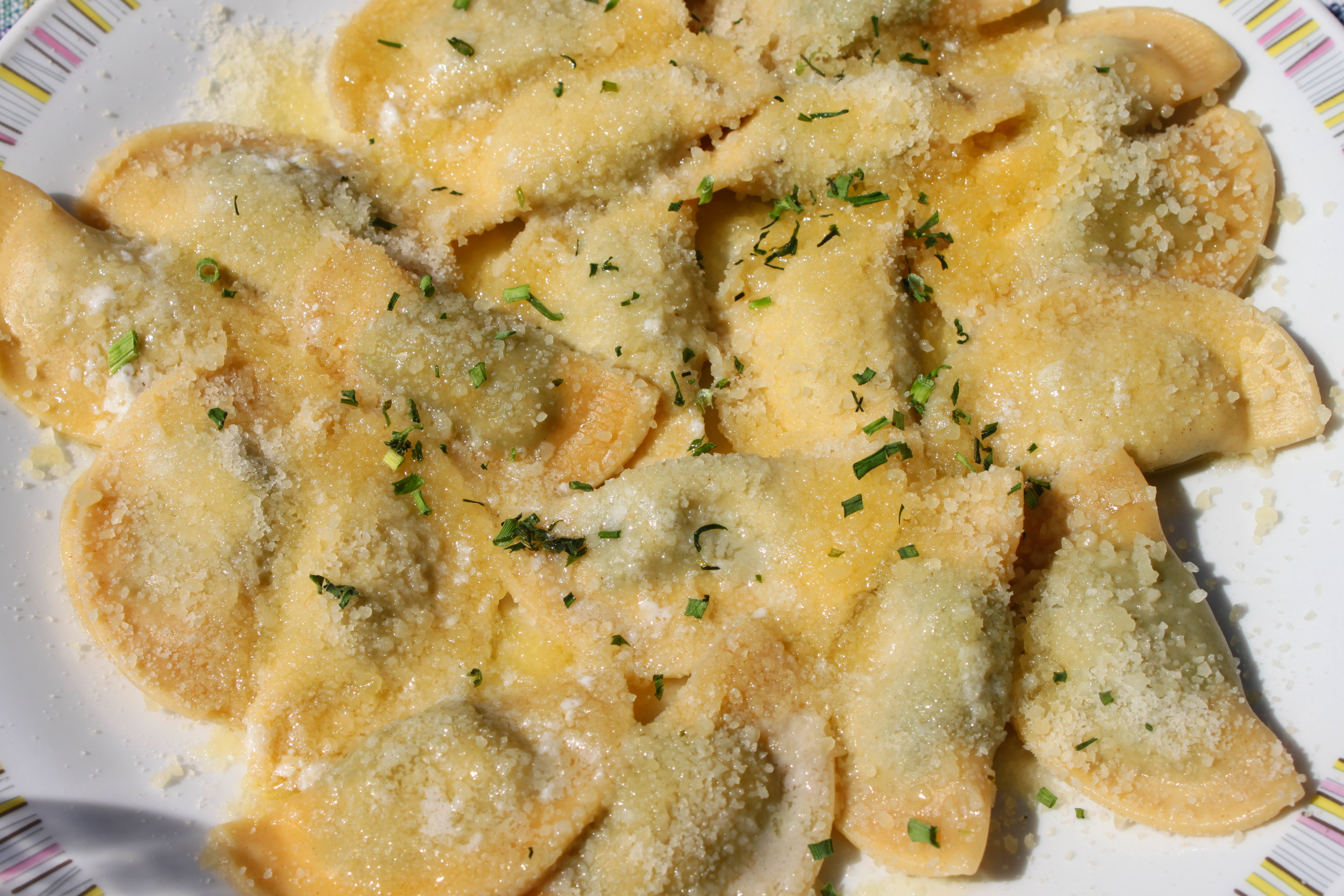 Schlutzkrapfen with a filling of spinach and ricotta cheese topped with melted butter and sprinkled with Parmesan shavings .